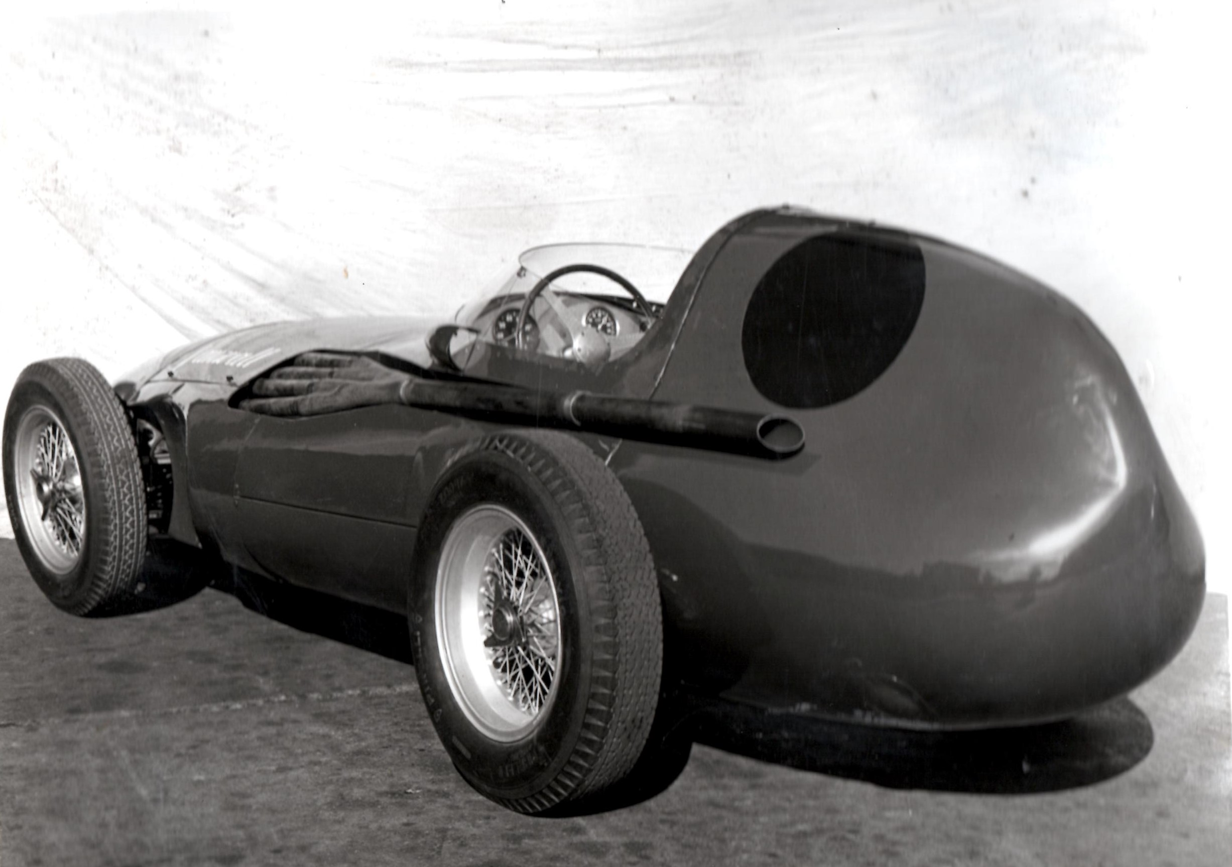 Vanwall rear coachwork by Abbey Panels